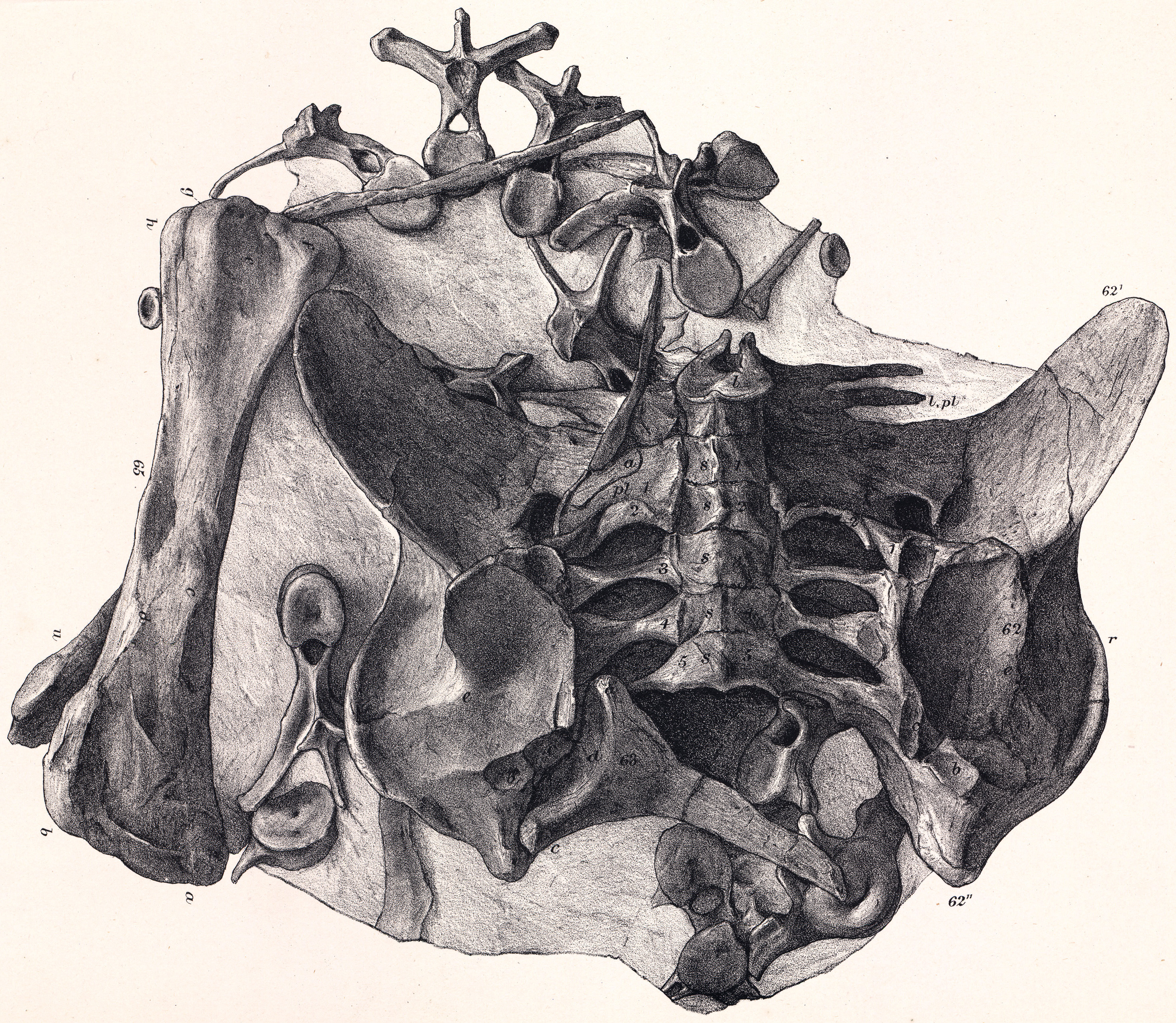 Holotype of the Kimmeridge Clay stegosaur Dacentrurus armatus, from Owen's 1875 monograph. Omosaurus armatus. Hæmal or under-view of the pelvis, with contiguous dislocated vertebræ and a right femur. One eighth the natural size. From the Kimmeridge Clay at Swindon, Wilts. In the British Museum.